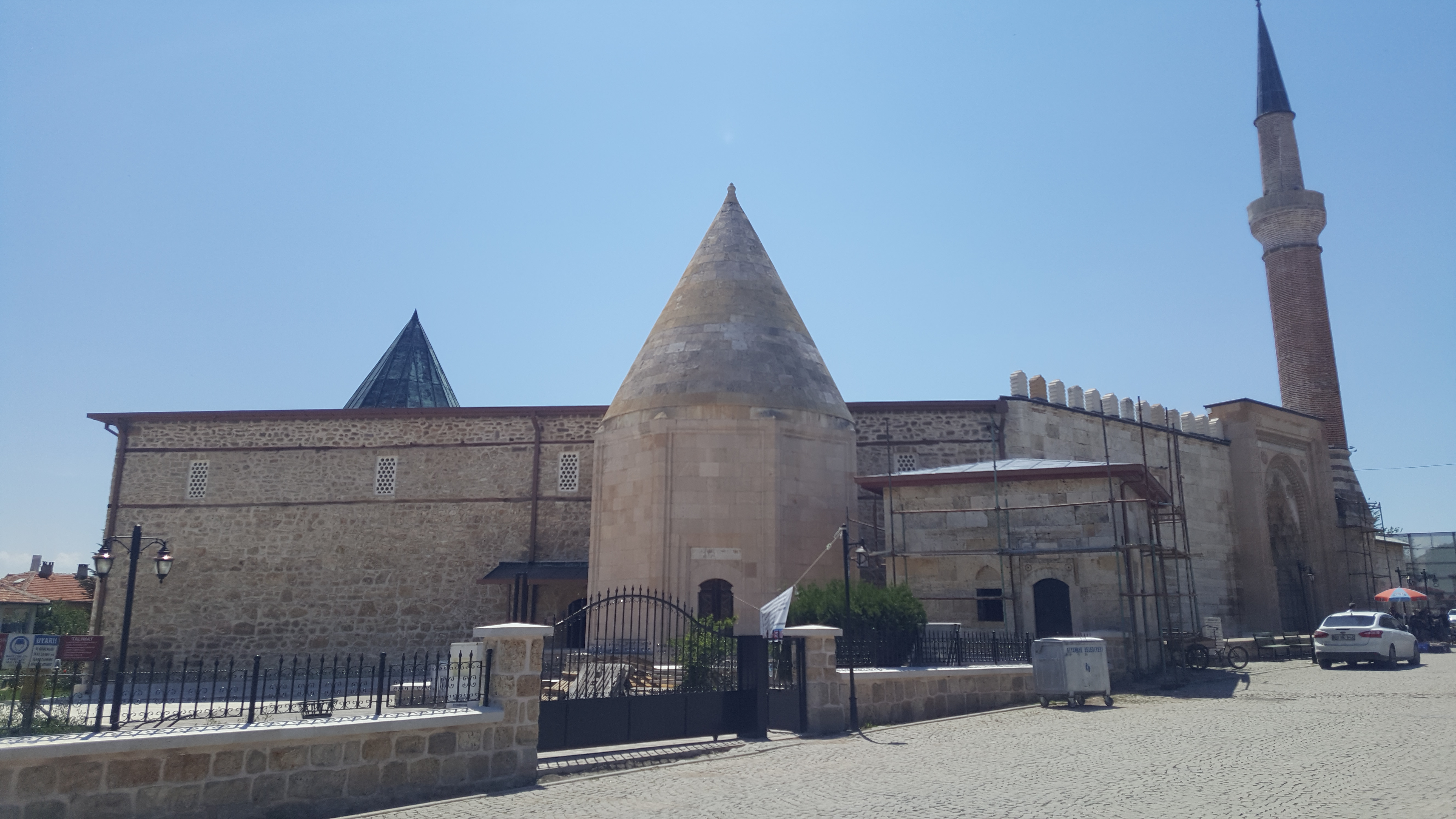 Esrefoglu Mosque, Beysehir, Konya, Turkey. It is the biggest and best preserved one of everal wooden columned and roofed mosques in Turkey .